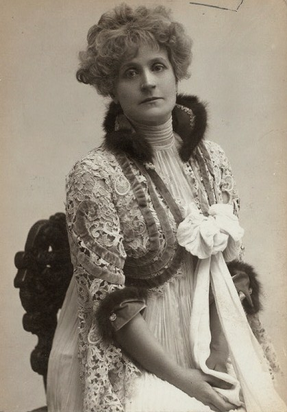 Henrietta Crosman in Madeline, Broadway - publicity still (cropped)